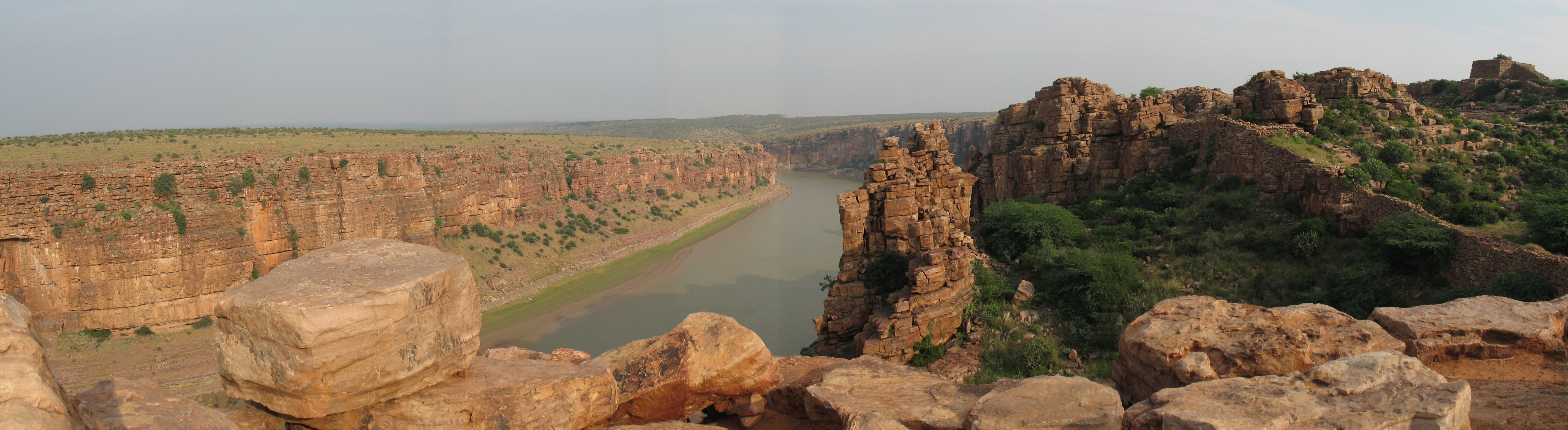 The beautiful Pennar river near the Gandikota port.